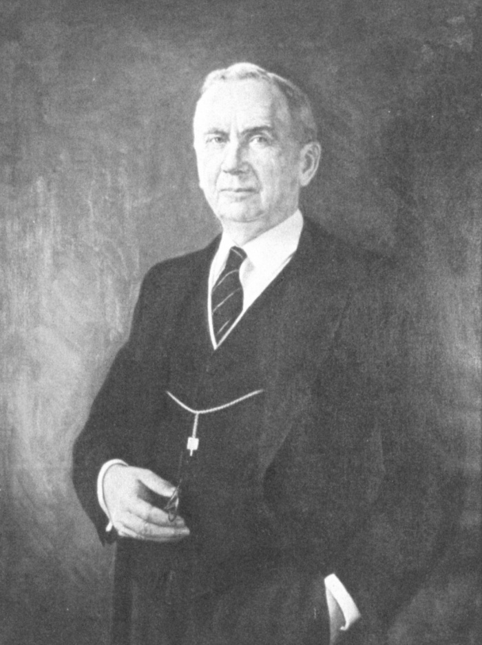 Credit: National Oceanic and Atmospheric Administration/Department of Commerce [1] Daniel Calhoun Roper, Secretary of Commerce